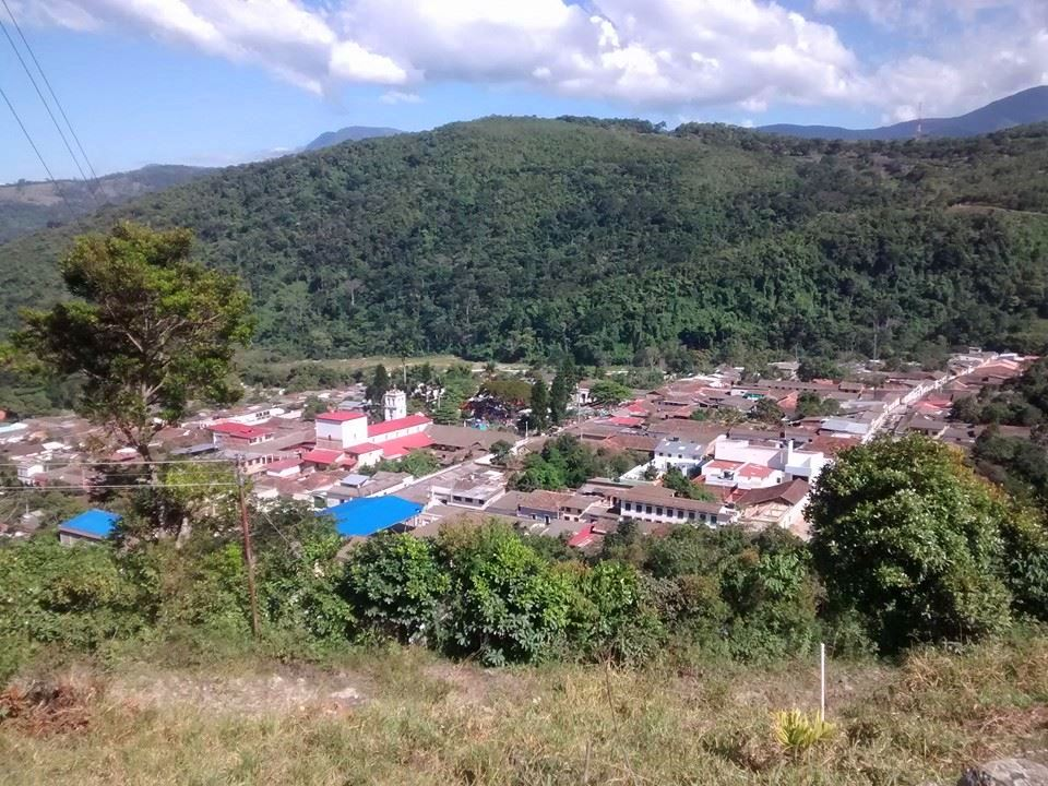 Bochalema NS, Colombia.